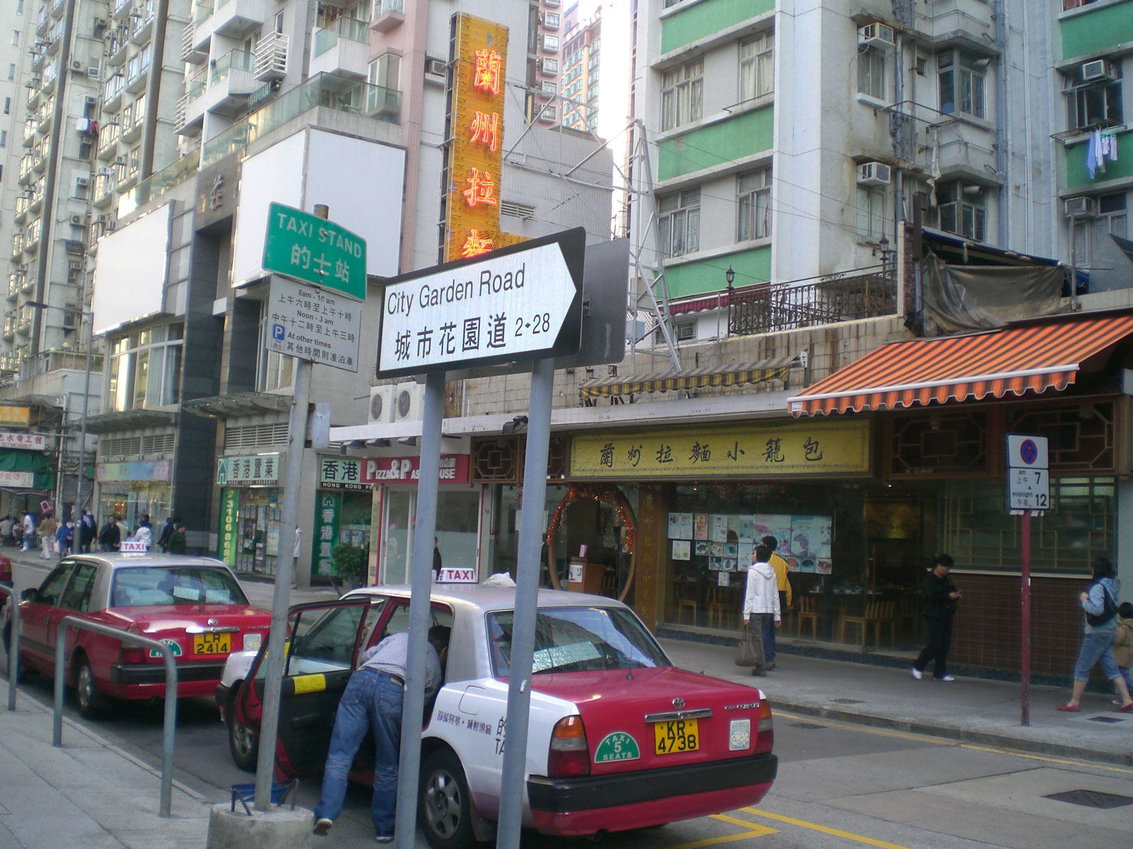 北角The road changes name here: Wharf Road becomes City Garden Road.